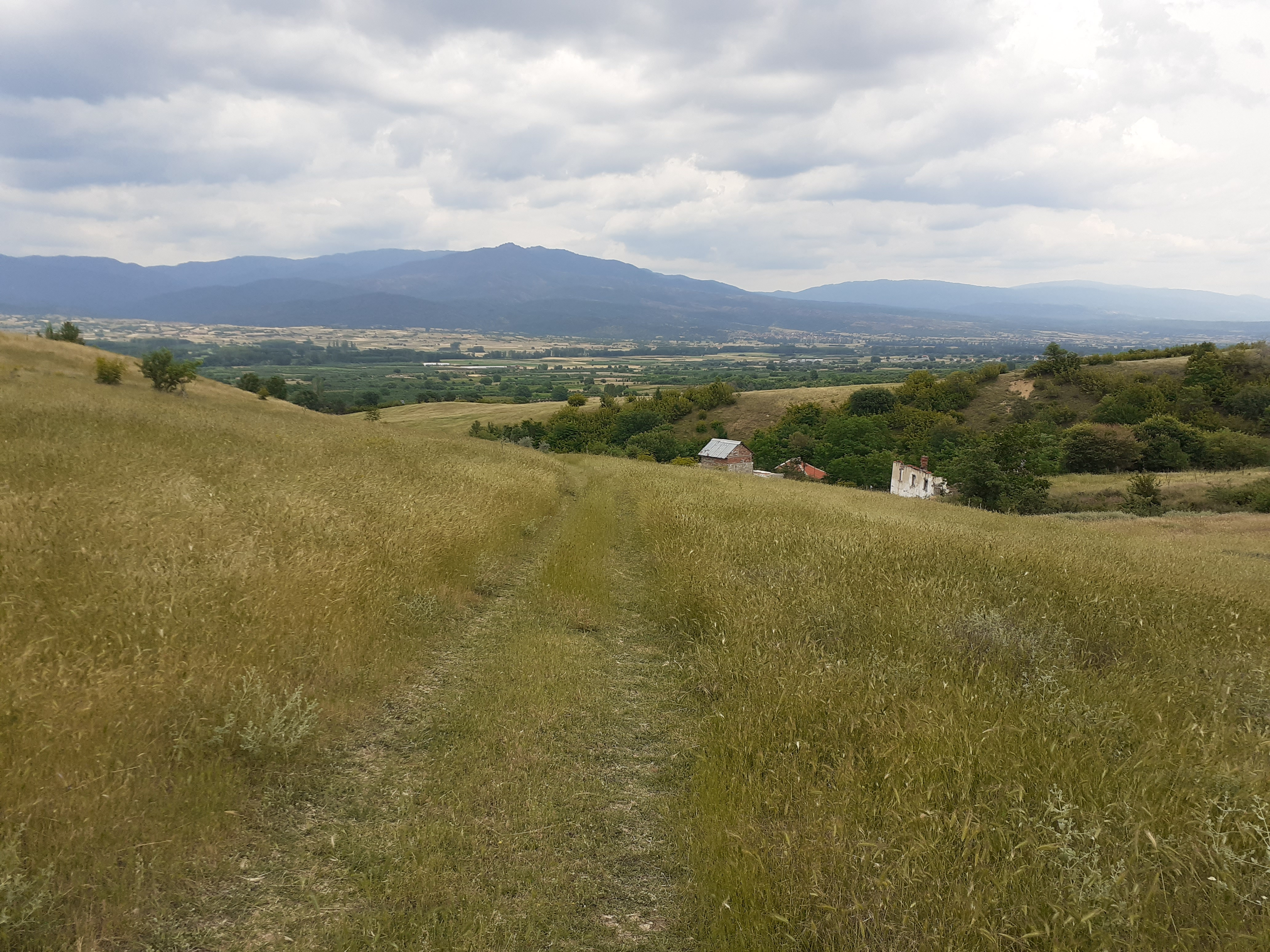 Radovish valley and Plackovica seen from hills above Suldurci, Macedonia